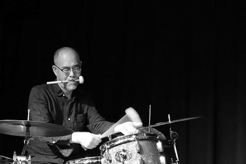 Yasuhiro Yoshigaki in Aarhus, Denmark